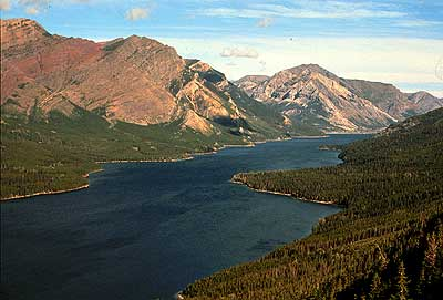 Goat Haunt Overlook, accessible by a steep one mile trail from the ranger station, offers an expansive view of Waterton Lake, looking north into Canada.